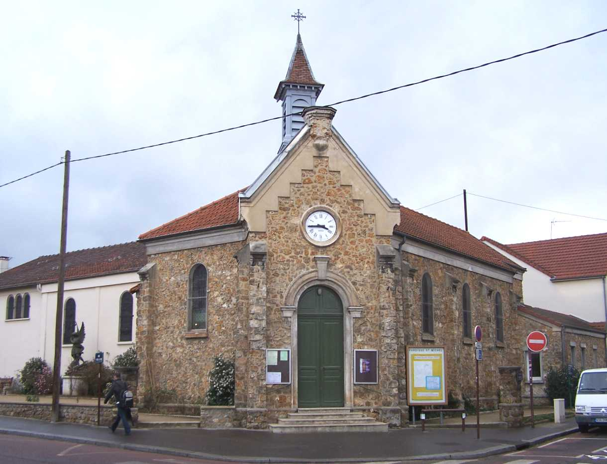 Saint-Michel church, suburb of Porchefontaine, in Versailles (Yvelines, France)